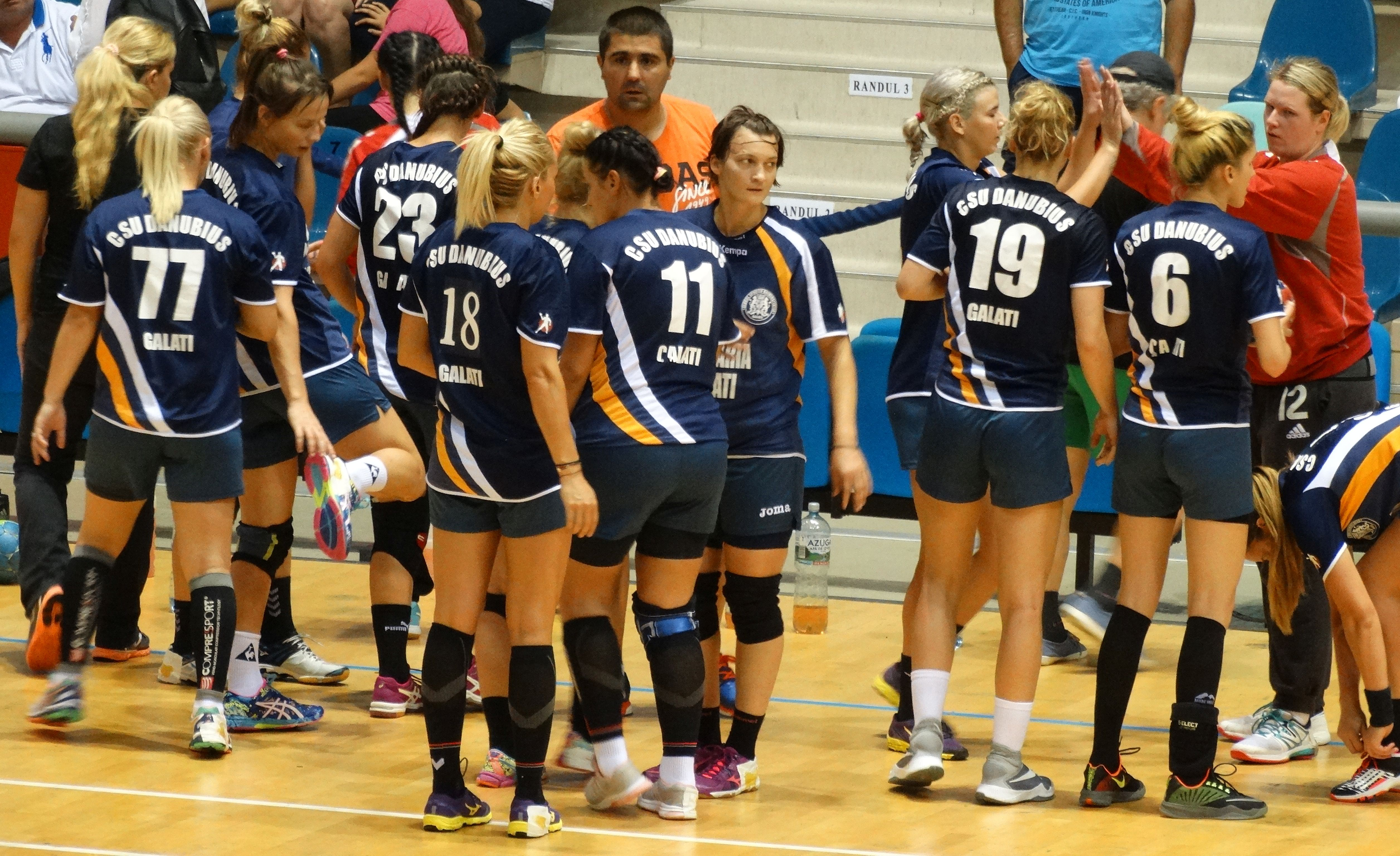 Romanian women's handball team CSM Galați during a team time-out.